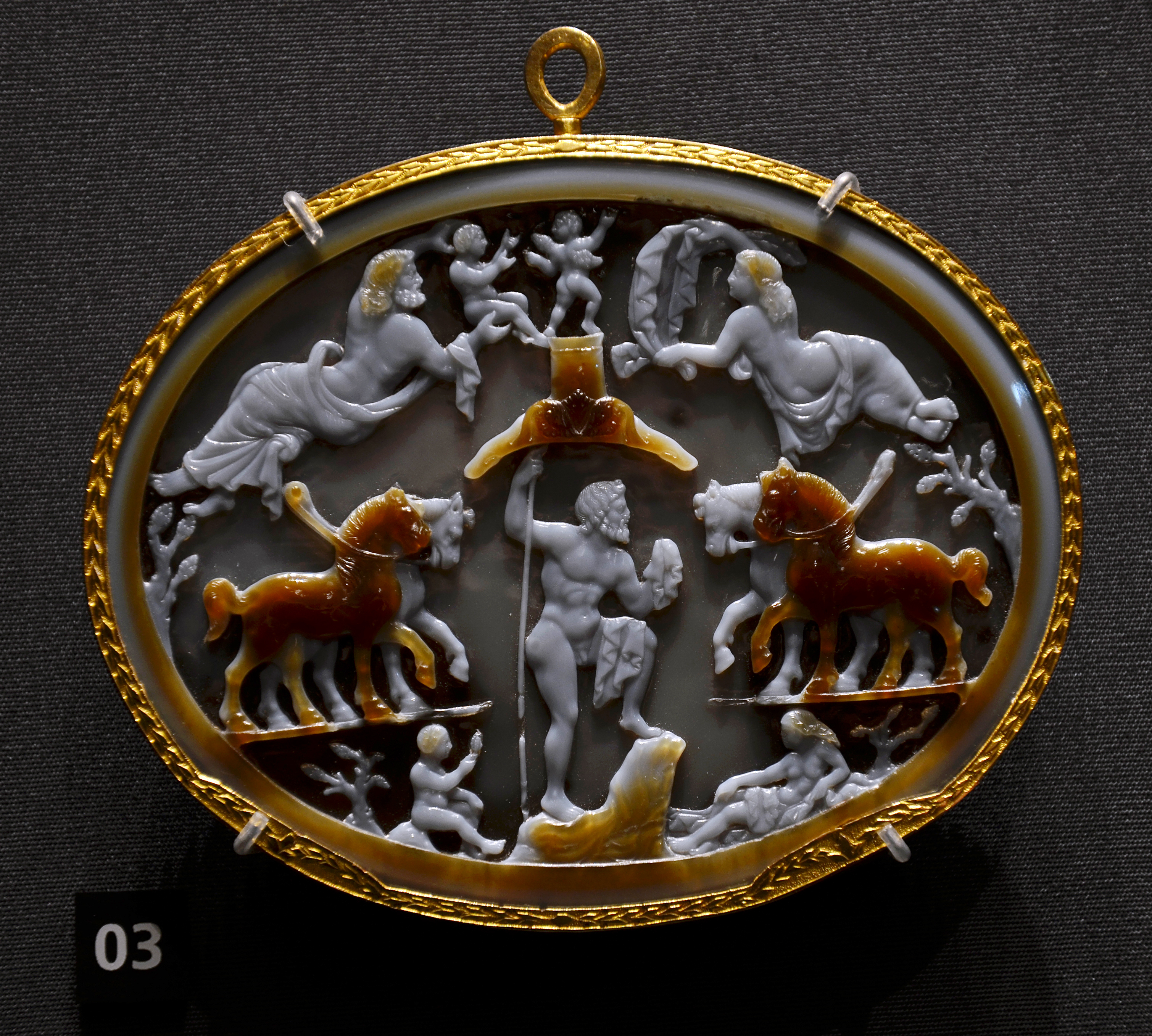 Poseidon as the lord of the Isthmian Games. Cameo, in the Kunsthistorisches Museum in Vienna.